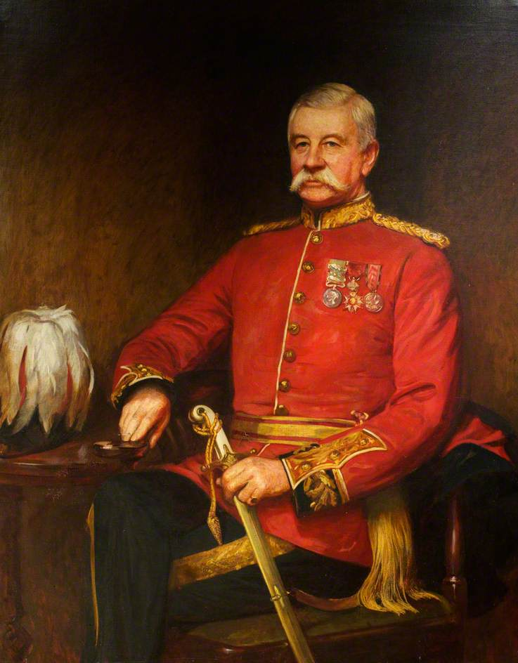 Major-General William Allan (1832–1918) by Daniel Albert Wehrschmidt (Veresmith) oil on canvas